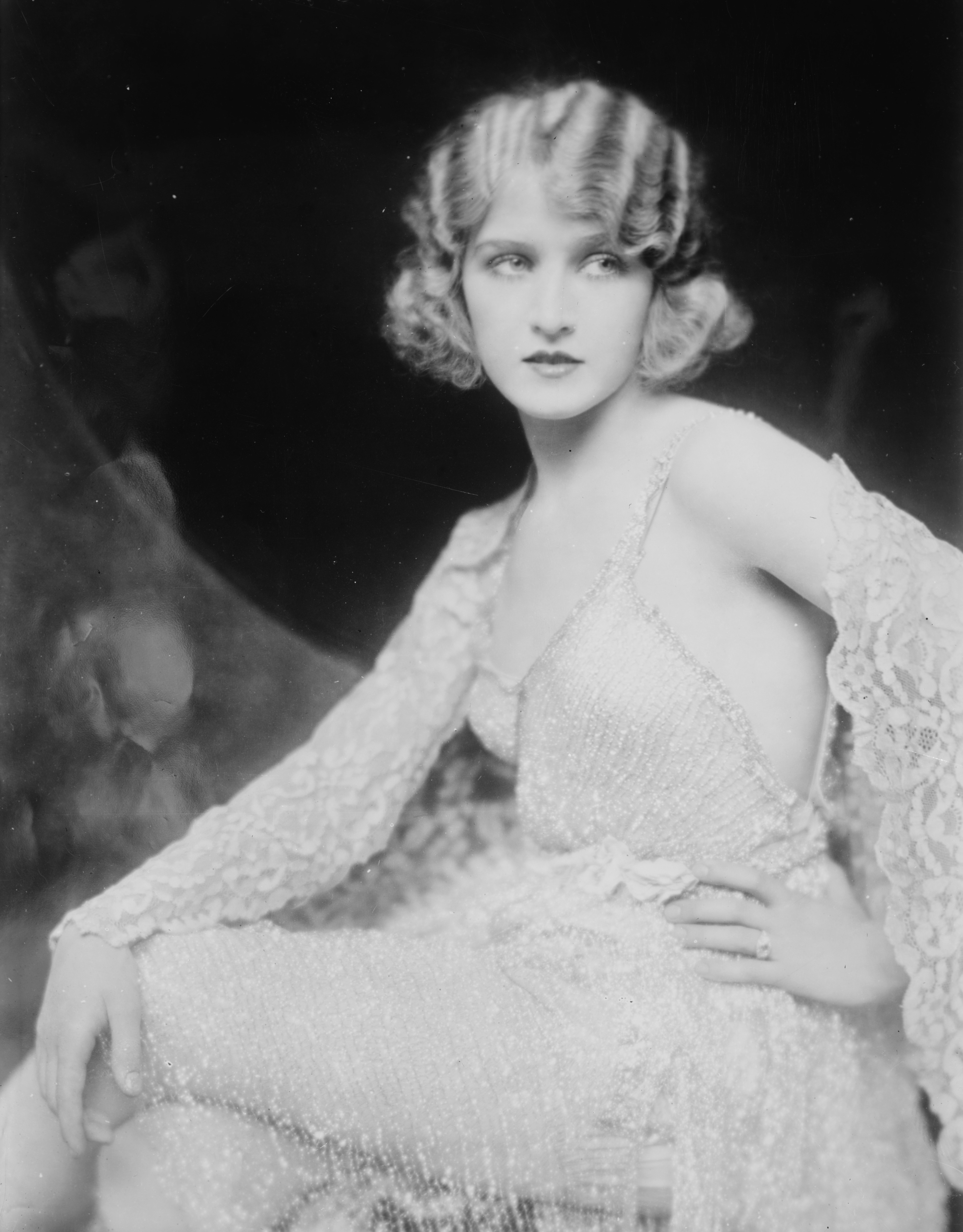 Mary Eaton, stage and screen actress of the 1920s